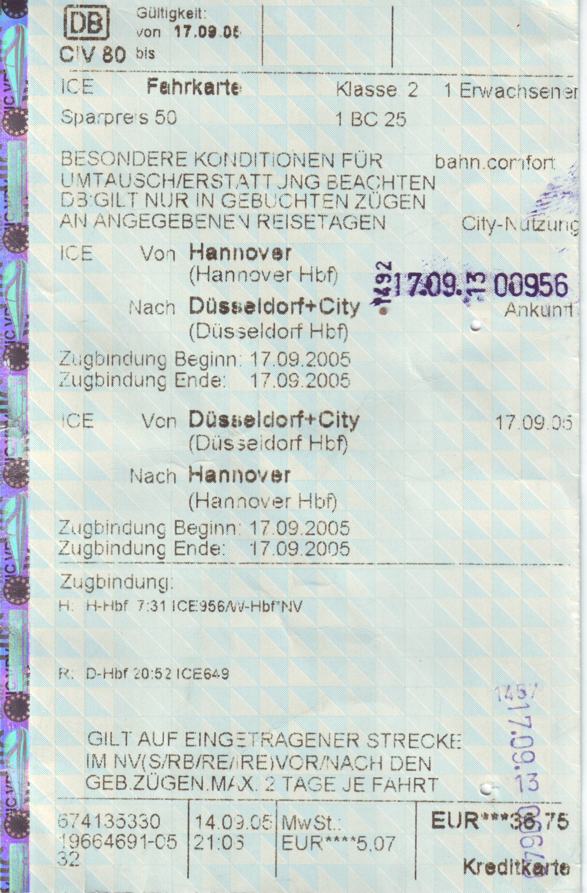 A ticket of die bahn. This ticket is a discount ticket. No change train. Cancel fee is 15EUR.